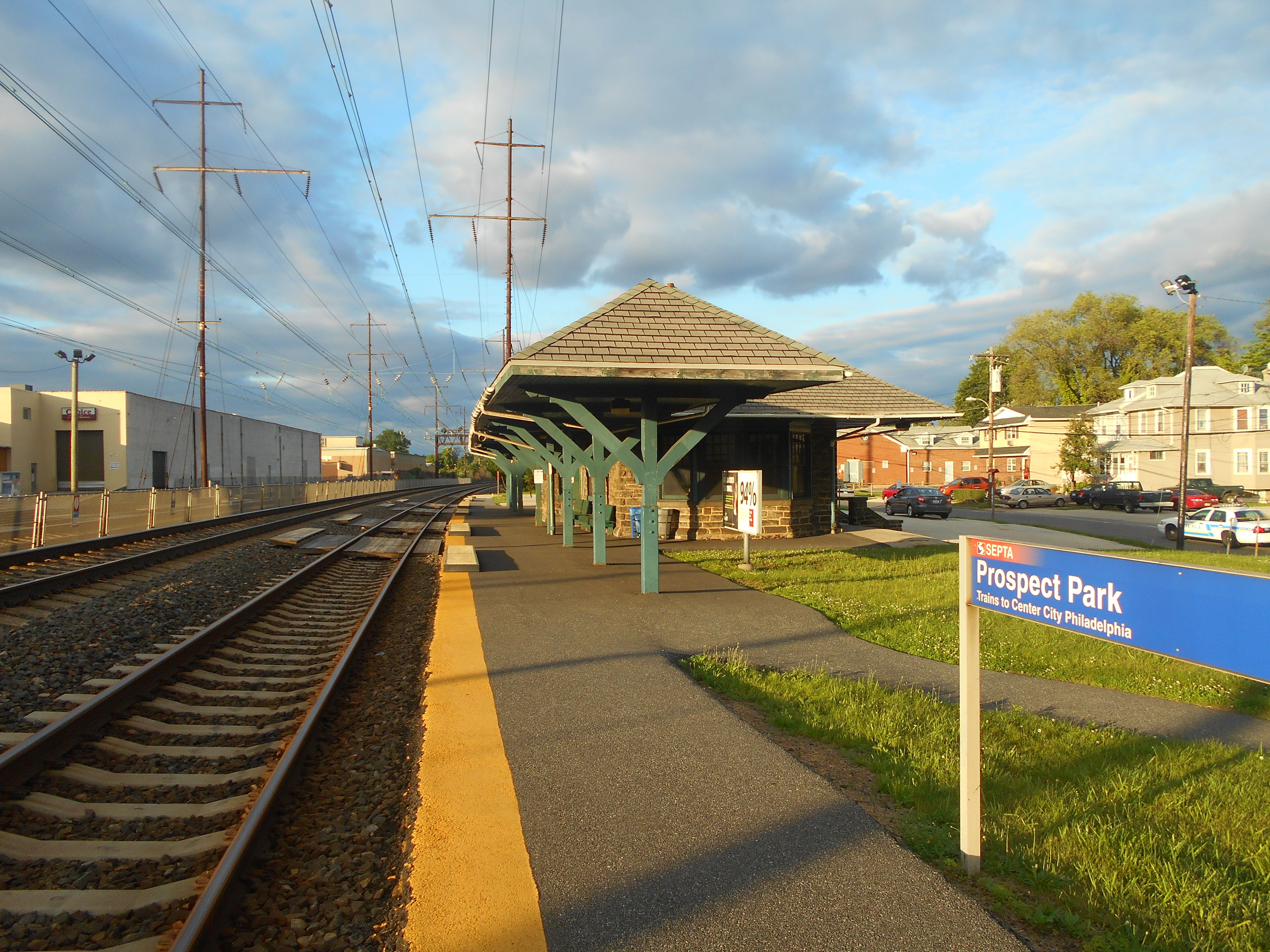 The Prospect Park SEPTA Regional Rail station in Prospect Park, Pennsylvania.